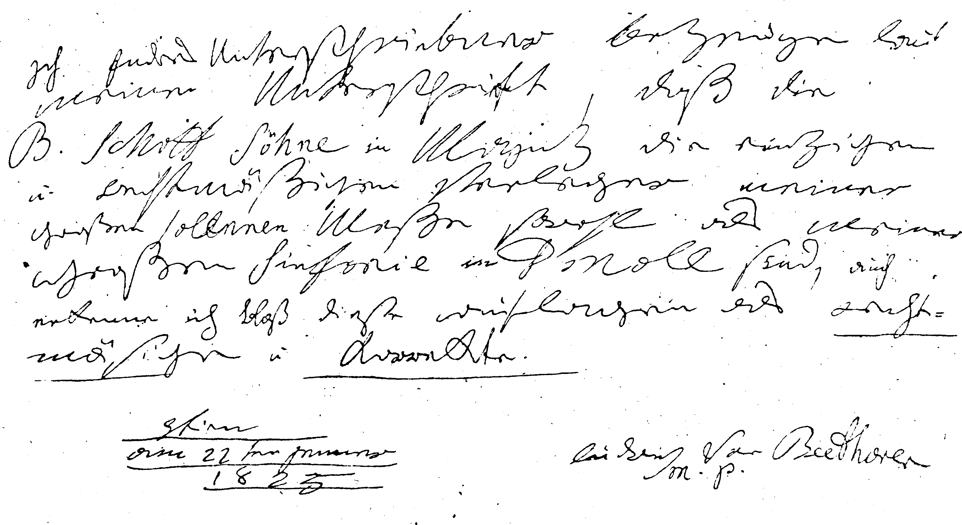 Written permission given by Beethoven to his editor to publish the Ninth Symphony and his Missa solemnis.